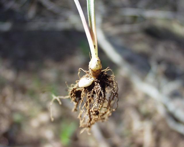 Meadow Gagea, Gagea pratensis, a photography originating of the internet site The accord of the autor, H. Brisse, is here.